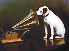 In England, artist Francis Barraud (1856-1924) painted his brother's dog Nipper listening to the horn of an early phonograph during the winter of 1898. Victor Talking Machine Company began using the symbol in 1900, and Nipper joined the RCA family in 1929. NOTE: This is a small image for the original see File:His Master's Voice.jpg